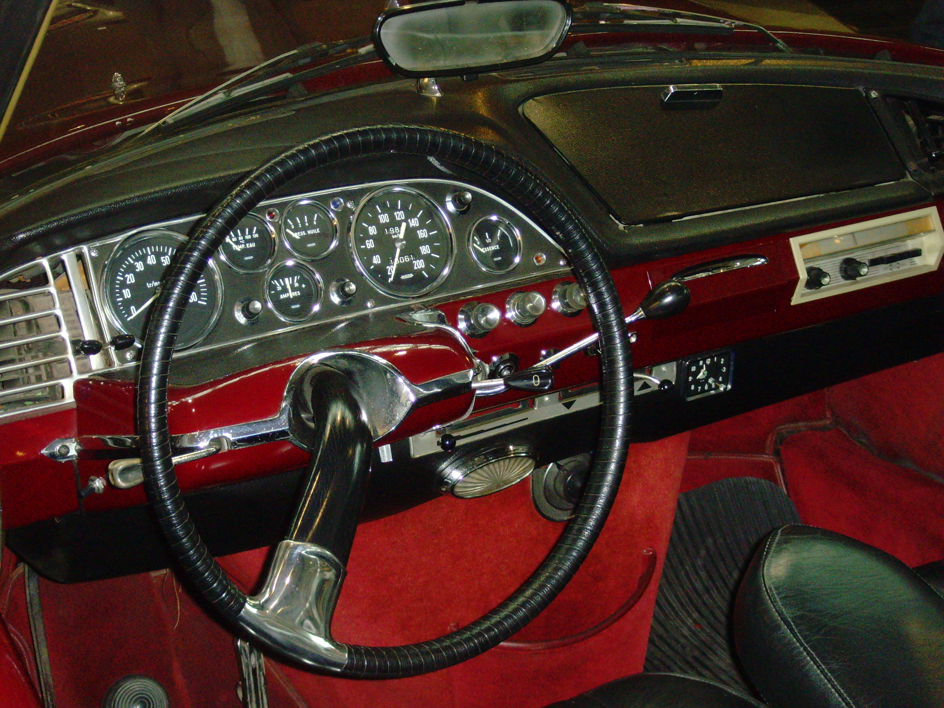 Dashboard of a Citroën DS Cabriolet.